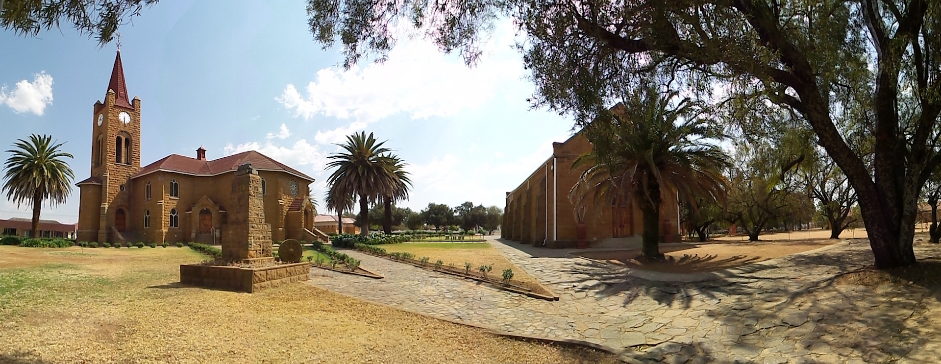 Nederduitse Gereformeerde Church, Church Street, Vredefort This media shows a South African Protected Site with SAHRA file reference 9/2/344/0003.